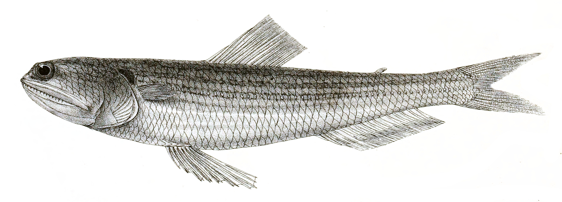 The species names / identity need verification - original names from plate are included here. The original plates showed the fishes facing right and have been flipped here. Saurus myops